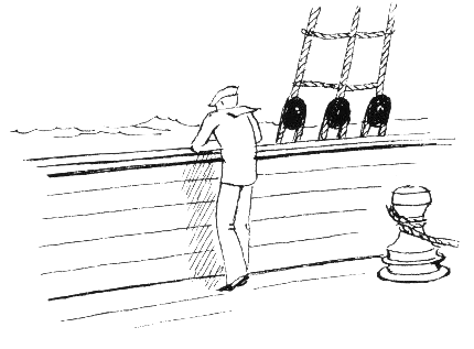 line art drawing